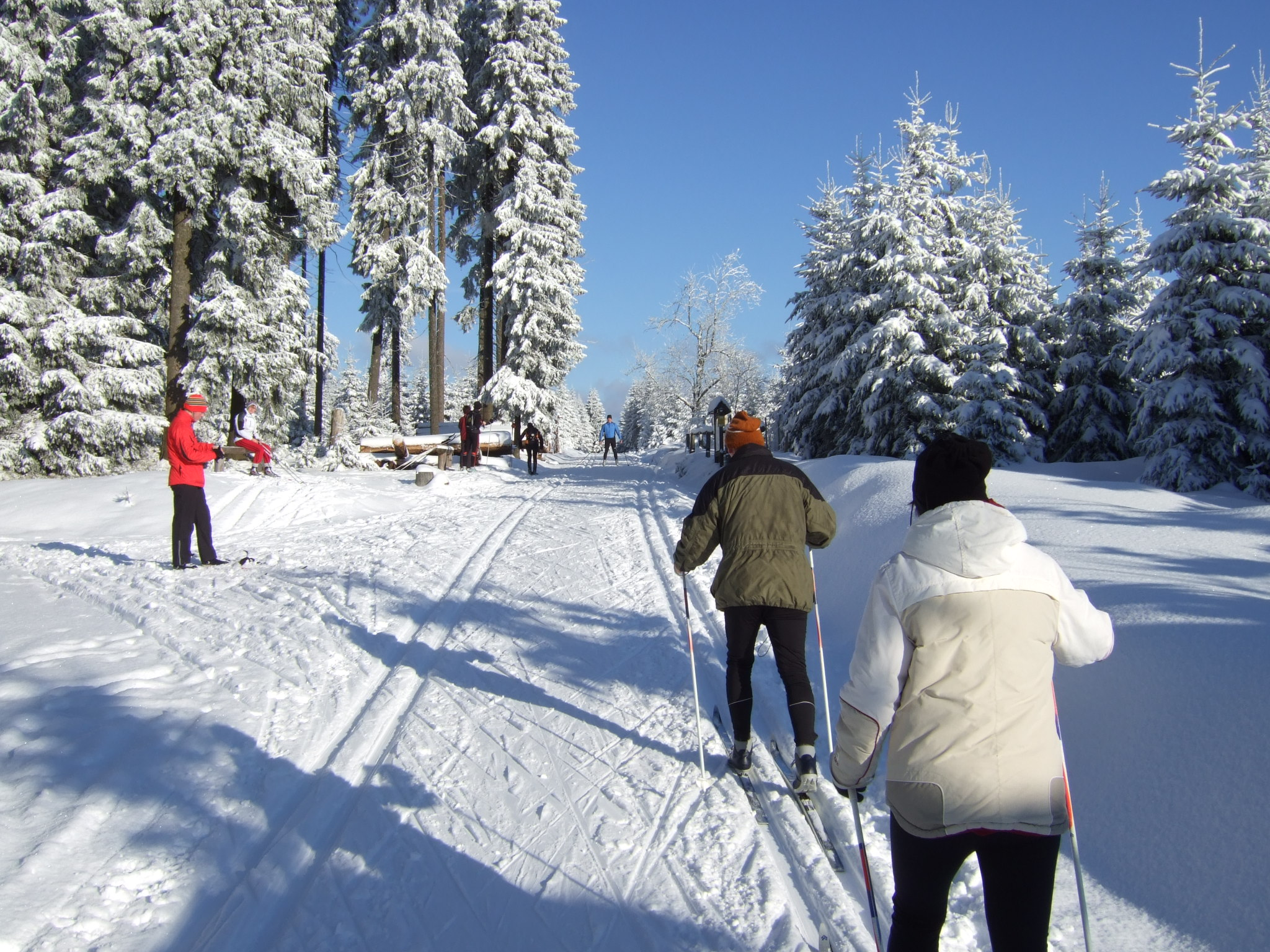 Kammloipe near Großer Kranichsee